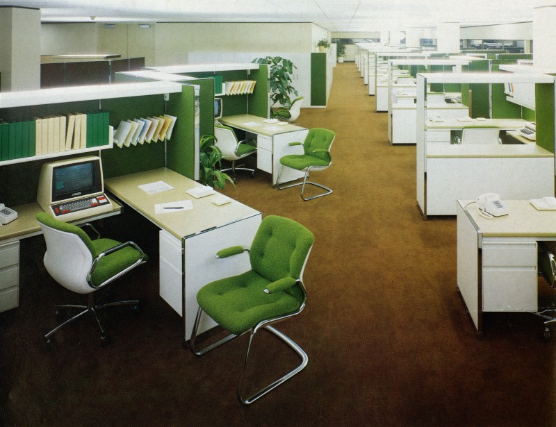 1979 photo taken at the Steelcase Technical Center in Grand Rapids, MI of Series 9000, a furniture line for computerized offices.